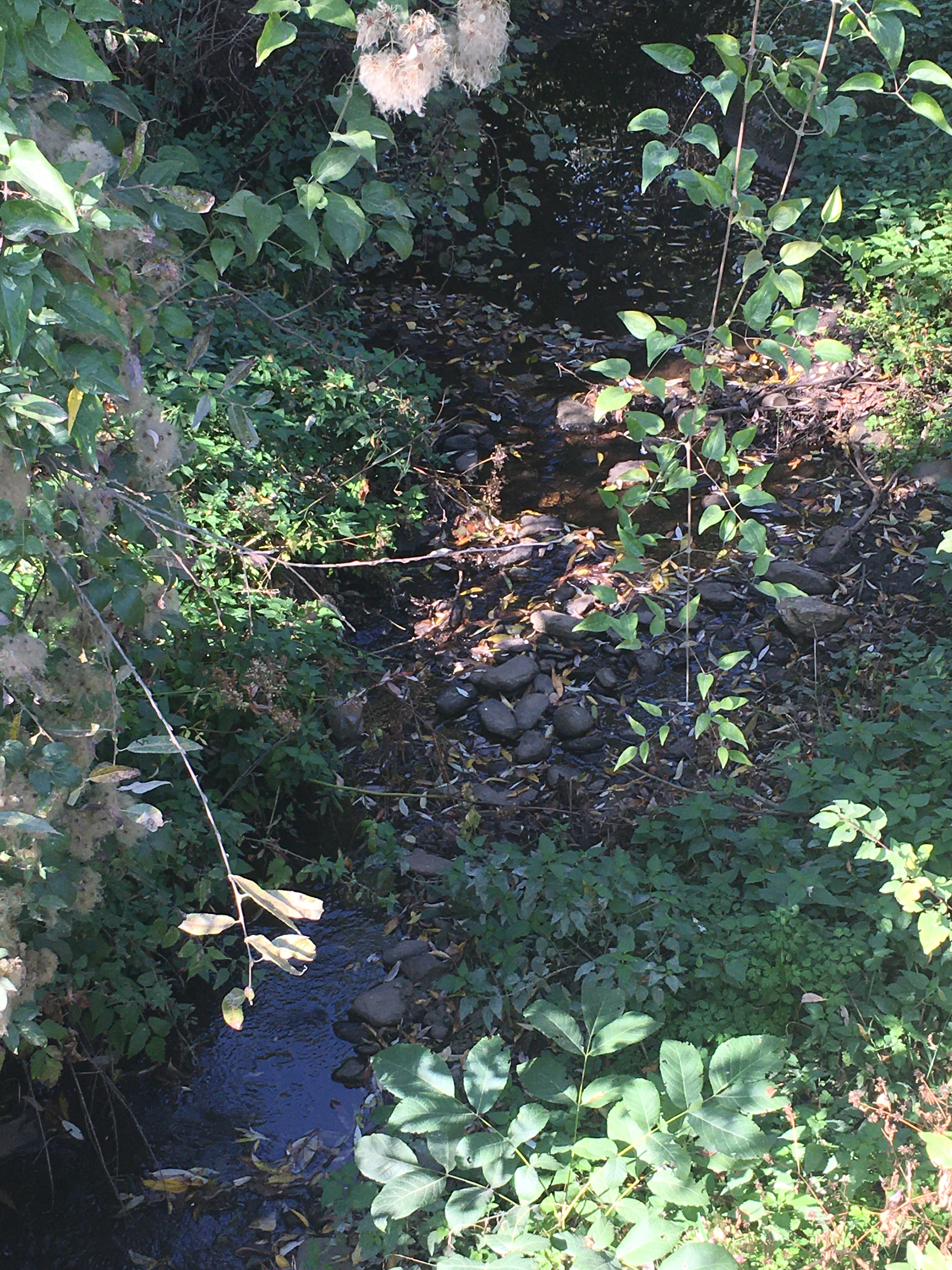 Dolgaec River through the eponymous village